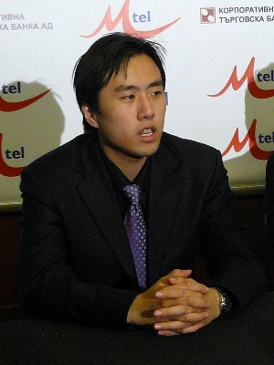 Bu Xiangzhi at the Mtel Chess Masters 2008